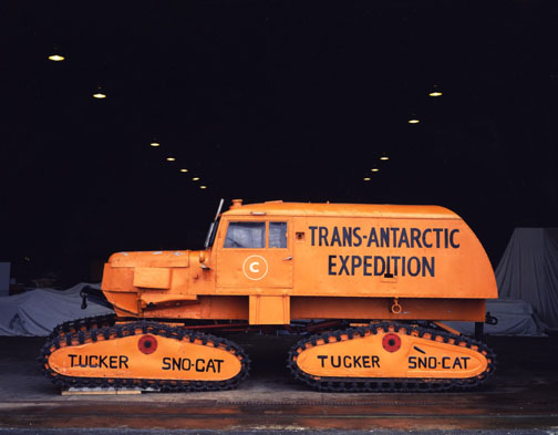 An object from the collections of the Science Museum (London) as copied from their ObjectWiki.